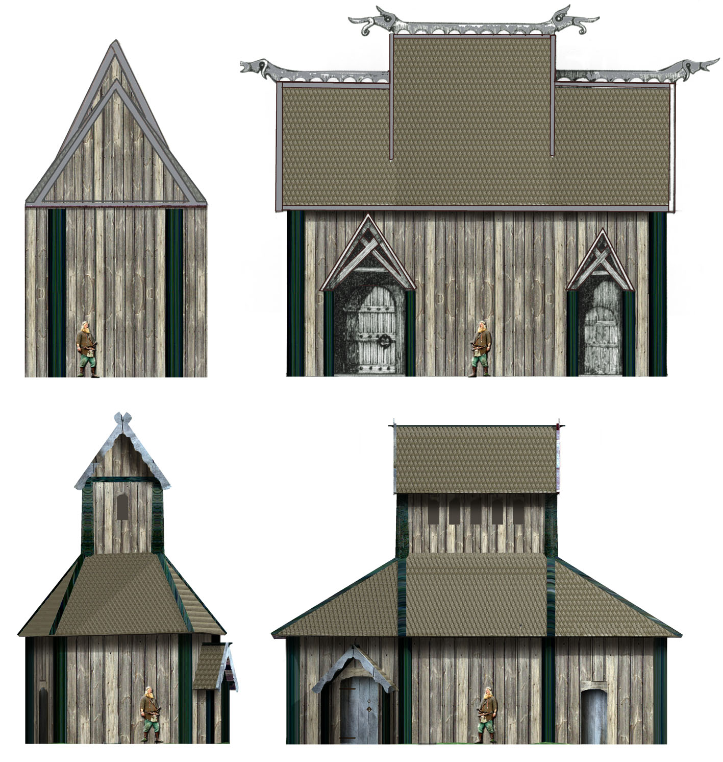 The pagan tempel of Uppåkra in the south of Sweden. Reconstruction.